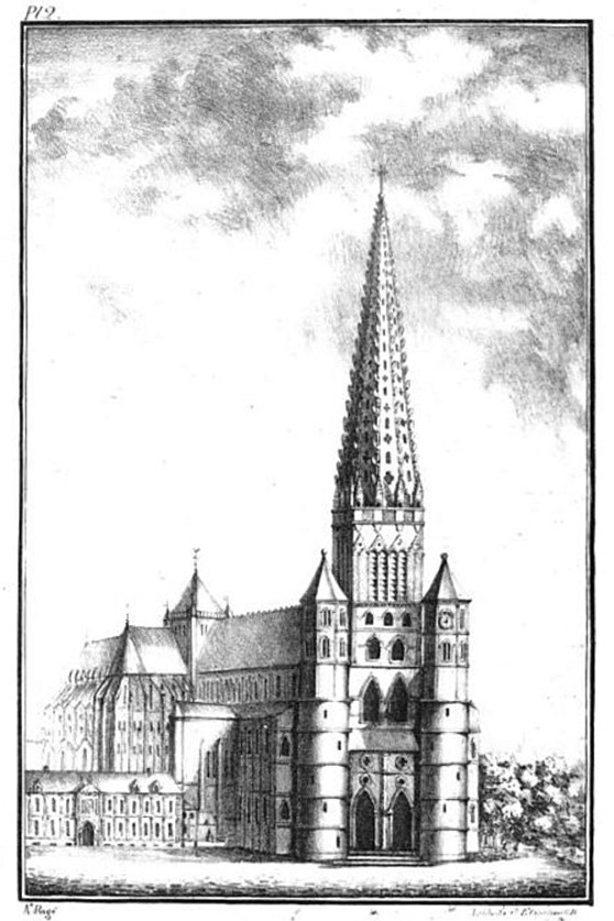 Drawing of the Old Cambrai Cathedral, as it appeared in André Le Glay, Recherches sur l’église métropolitaine de Cambrai (Paris, 1825).